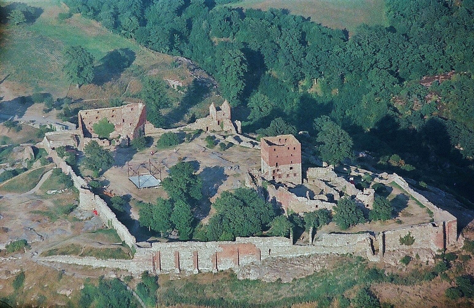 Bornholm Island, aerial view of Festung Hammershus 7.8.1982